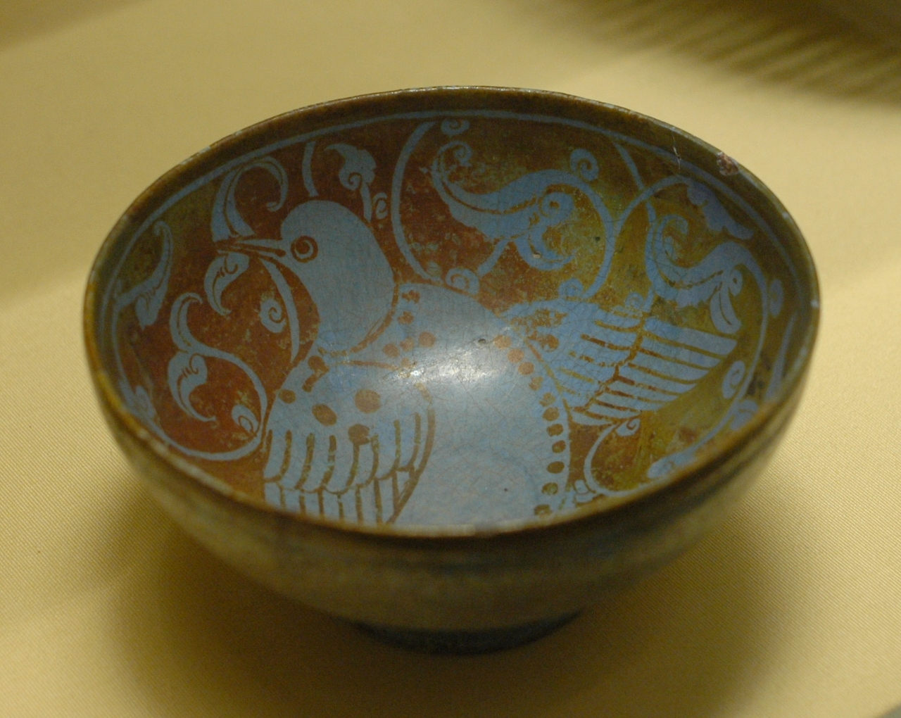 Cup with bird, Iran, last 12th century. Composite body, lustre decoration, opaque colored glaze, overglaze painted (showcase 43A).